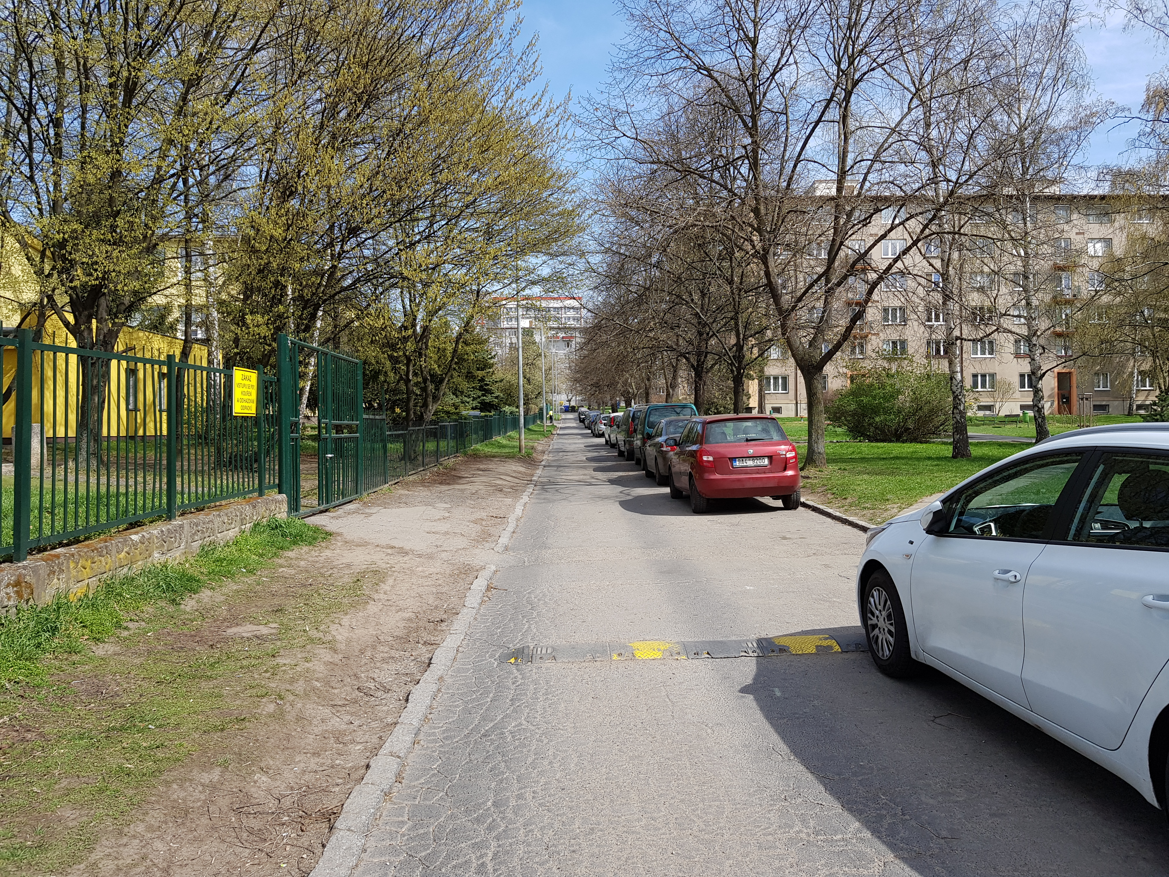 Mochovská Street, Prague 14 - Hloubětín